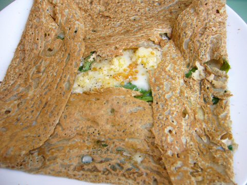 Galette, in Cafe du lievre, Kichijoji, Tokyo, in 3 May 2006